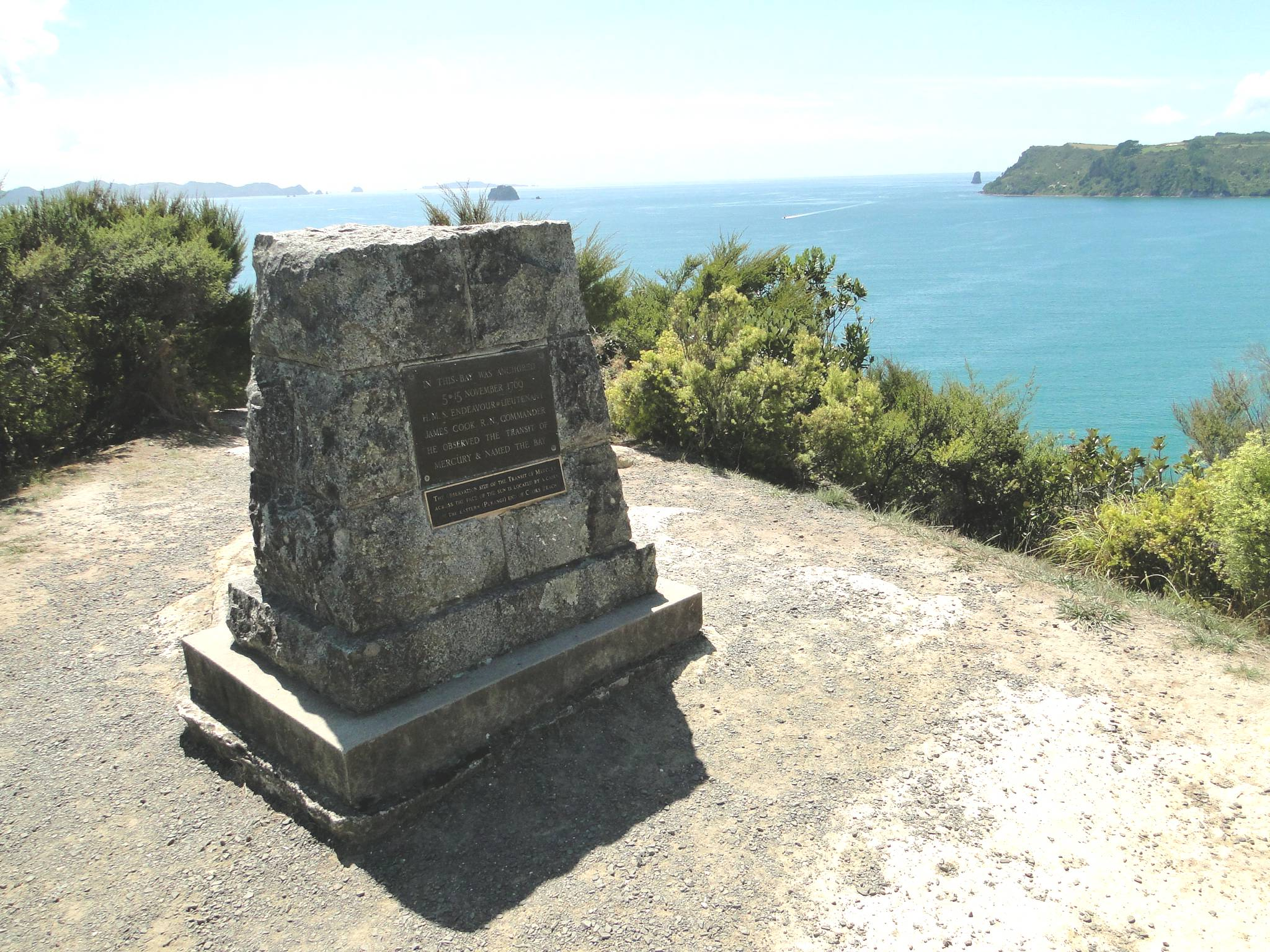 Cairn of Coromandel granite at Shakespeare Point, Mercury Bay, New Zealand. The cairn commemorates Lieutenant James Cook's observation of the transit of the planet Mercury. The vista beyond the memorial looks eastwards, to Cooks Beach and beyond.